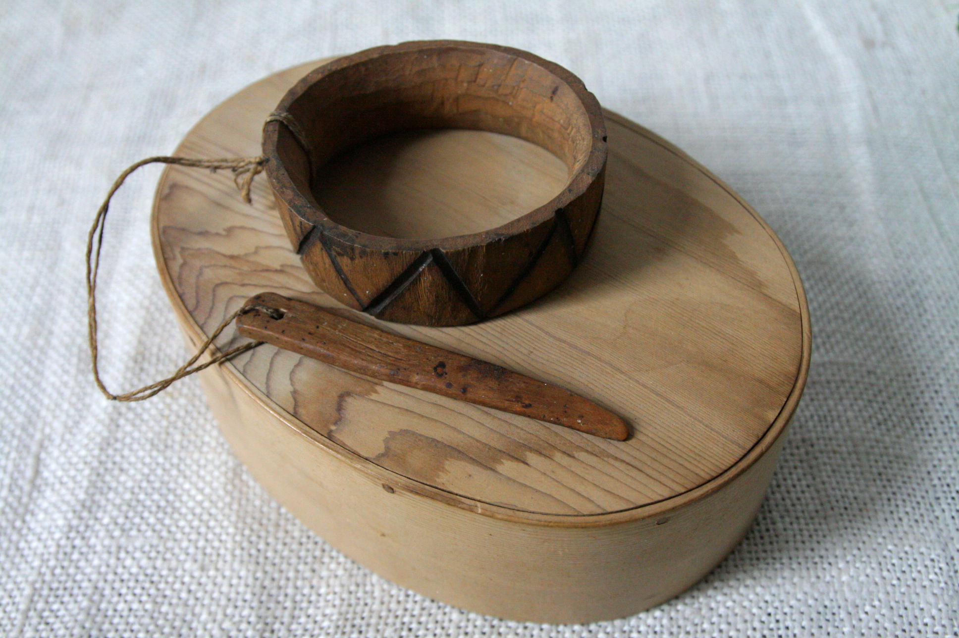 Part of a Hungarian woman's headdress from Kalotaszeg